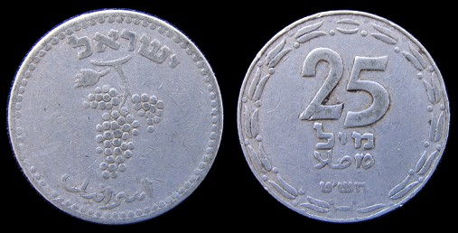 Israel coin km8 25 Mils (1948-1949), image courtesy of Dan Ramer, from World Coin Gallery.